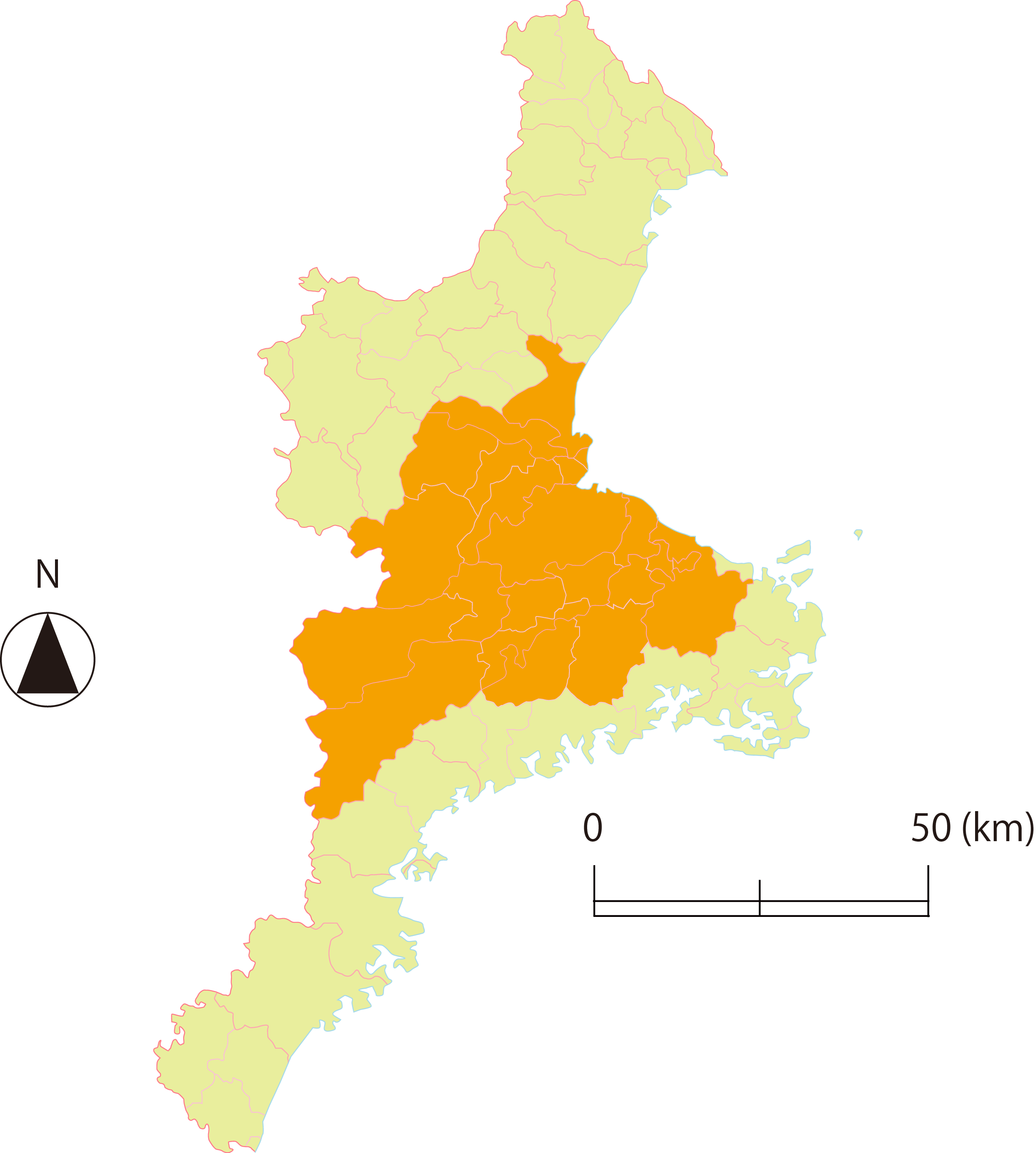 This map shows the area where Matsusaka Beef is producing in Mie prefecture, Japan.